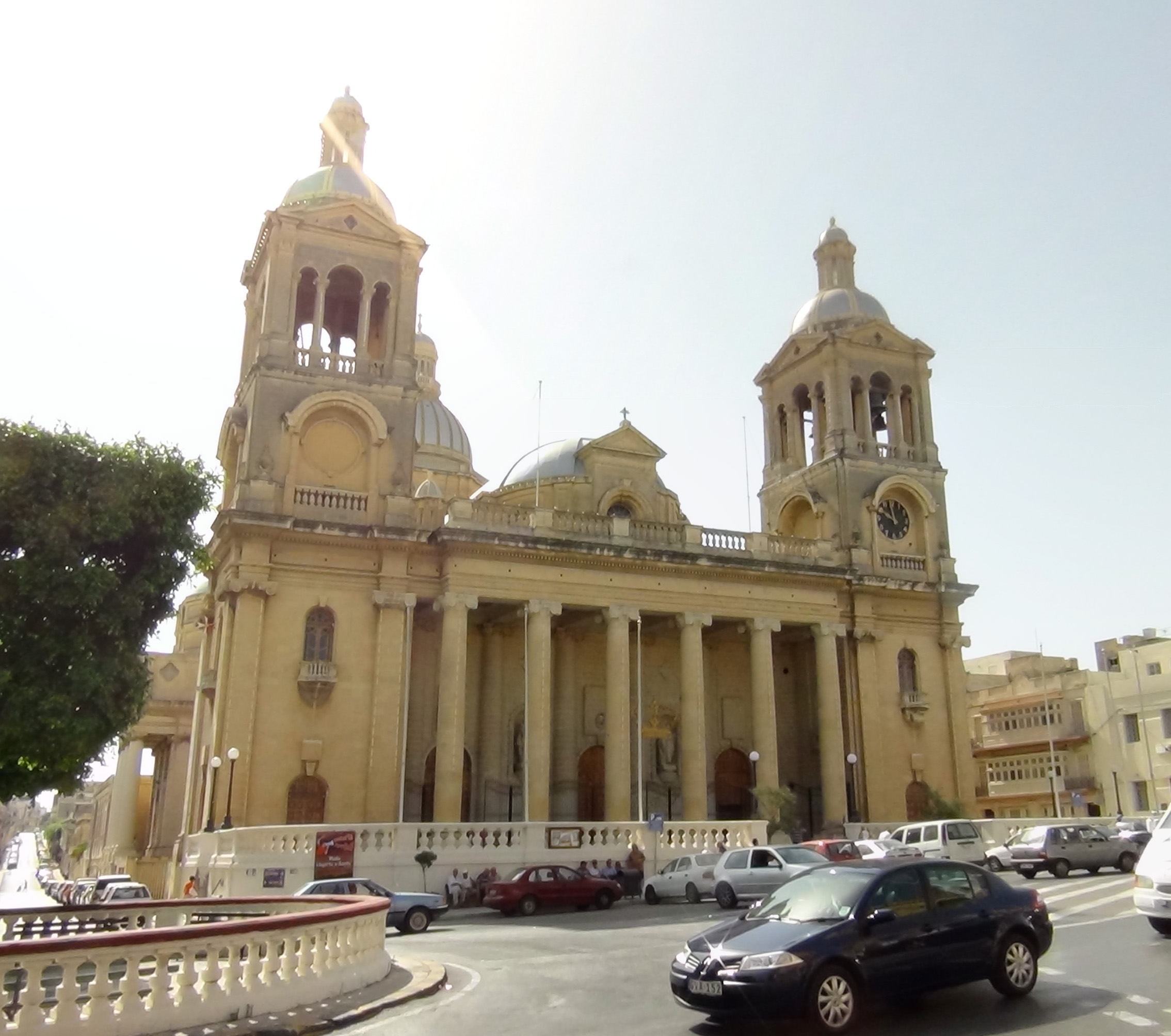 Parish church, Paola, Malta